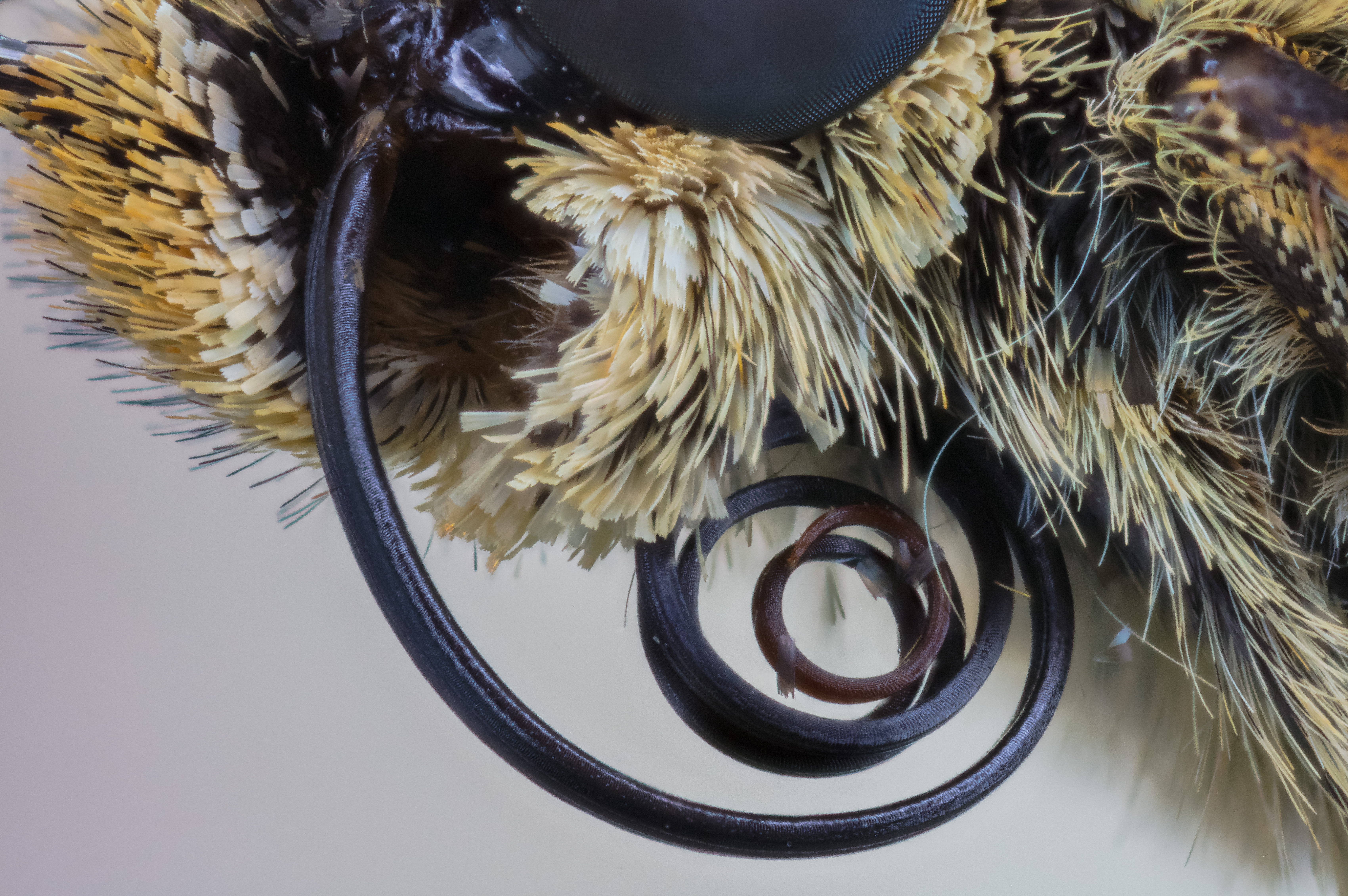 Silver-spotted skipper (Hesperia comma), Hartelholz, Munich, Germany